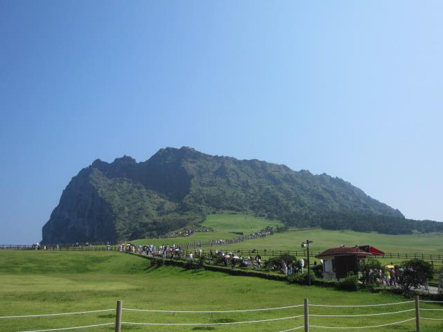 A photo I took in July 2014 of the Seongsan Ilchulbong and the trail with tourists walking up to the the crater